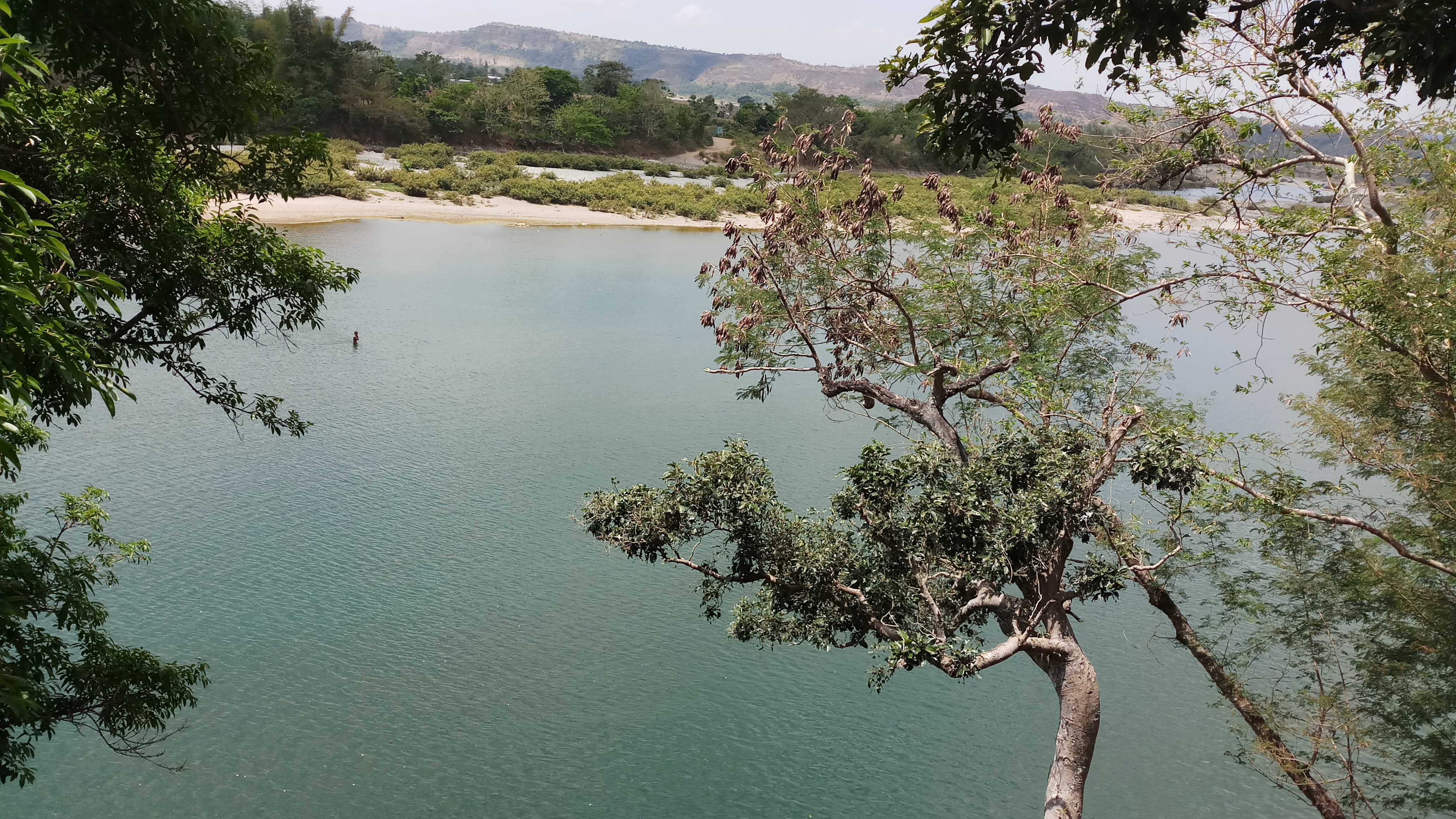 View of the Pinacanauan River as seen from the entrance to the Callao Caves